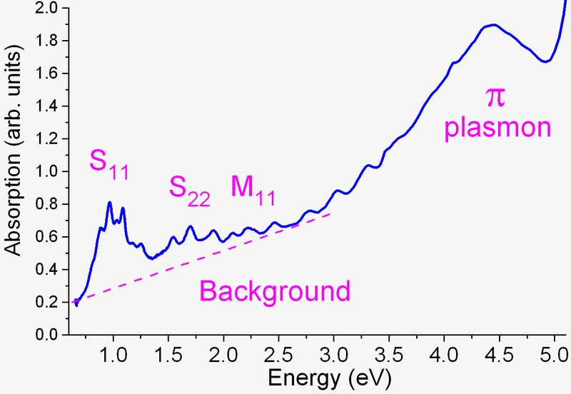 Optical absorption spectrum of well-dispersed "Hipco" single-wall carbon nanotubes. S11, S22 and M11 indicate peaks originating from transitions between the 1st and 2nd band gaps in semiconducting and metallic tubes, respectively.